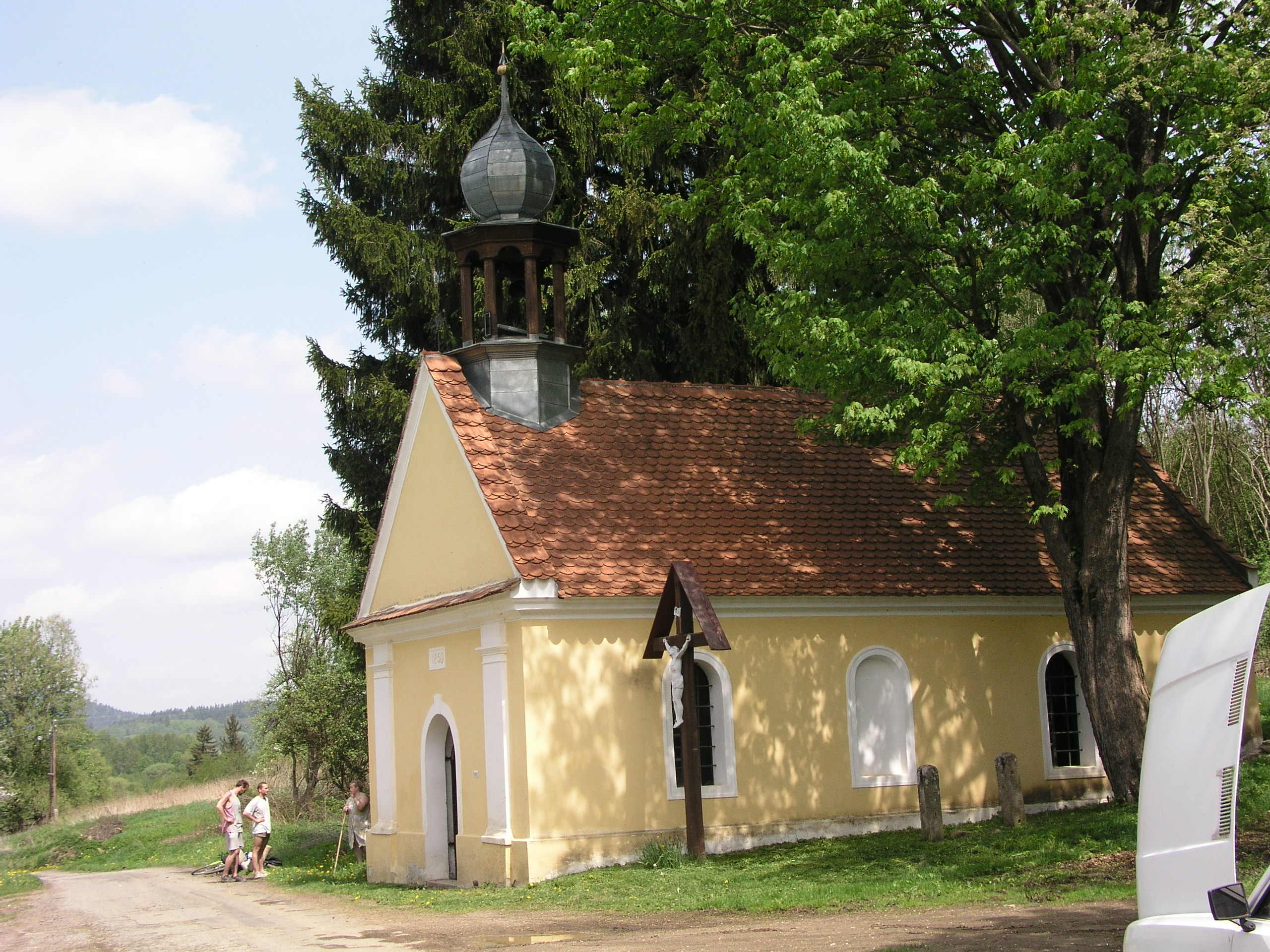 The chapel in Kuří (Germ. Herrmannschlag)